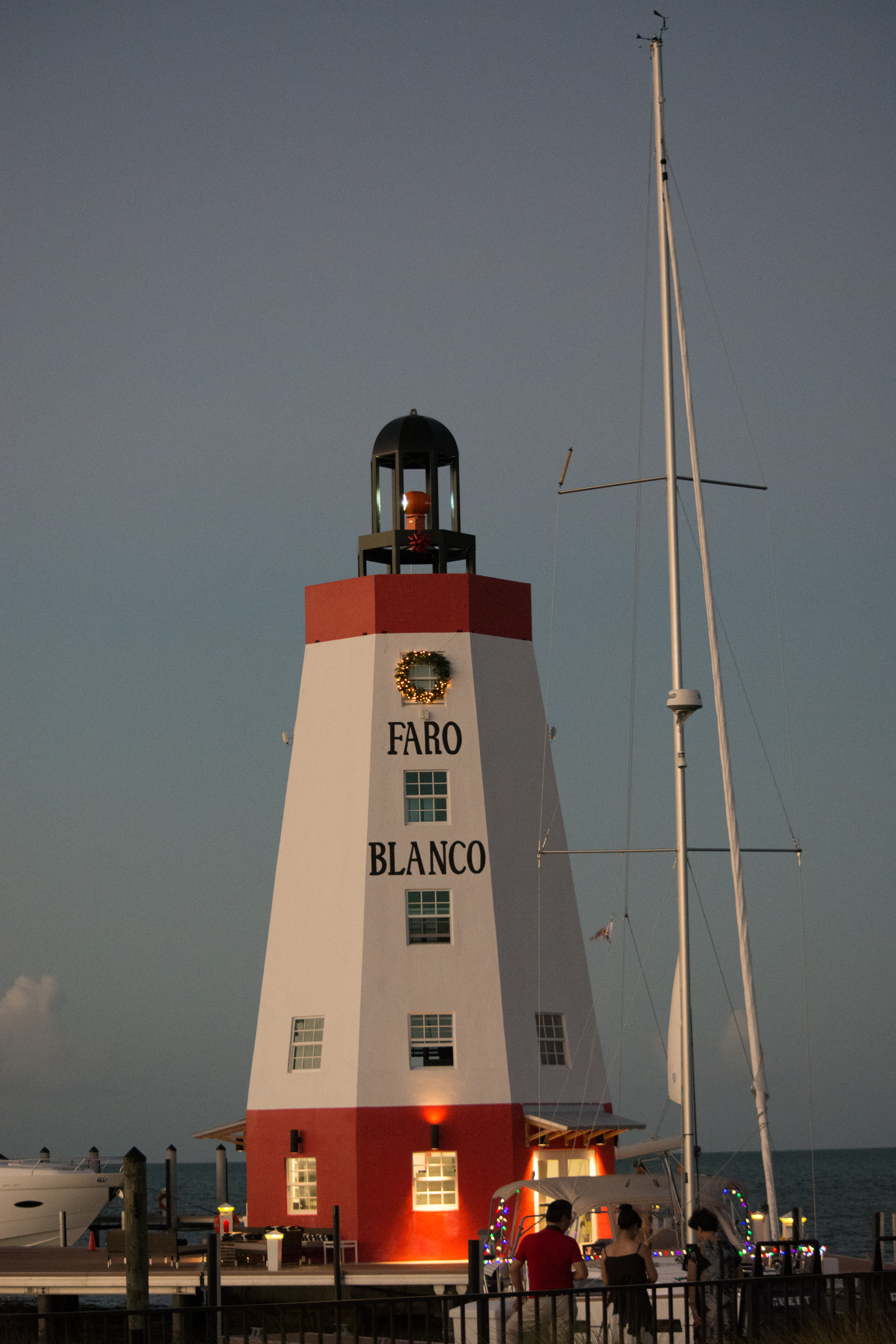 Faro Blanco Lighthouse located in Marathon, FL